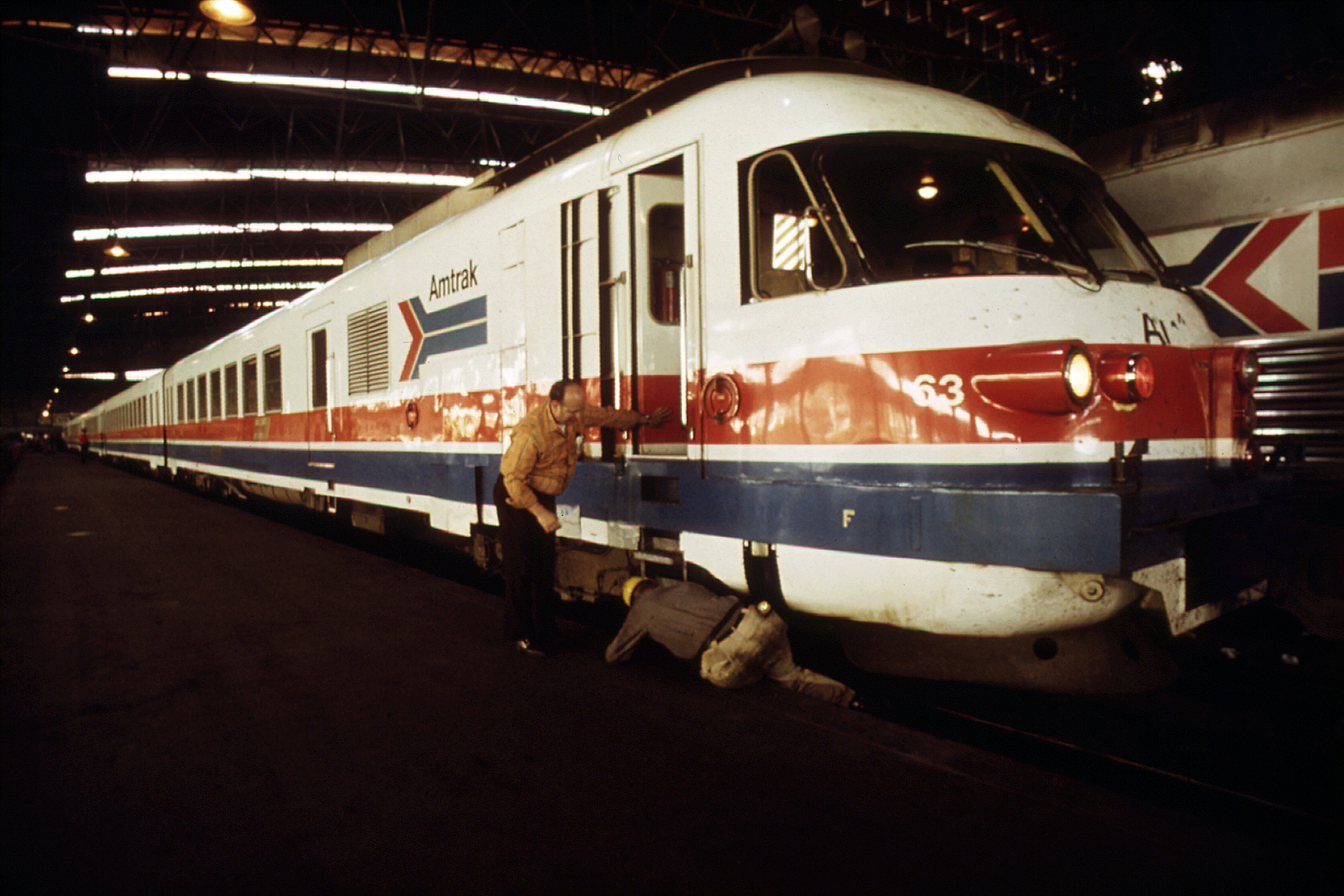 A last-minute check of the engine of the Amtrak Turboliner passenger train is made before departure from St. Louis, Missouri, to Chicago, Illinois. Two Turboliners were leased from the French and began service in October 1973. After eight months of trial, Amtrak officials purchased them and ordered an additional eleven. It is part of the corporation's continuing effort to upgrade equipment inherited from the nation's railroads.